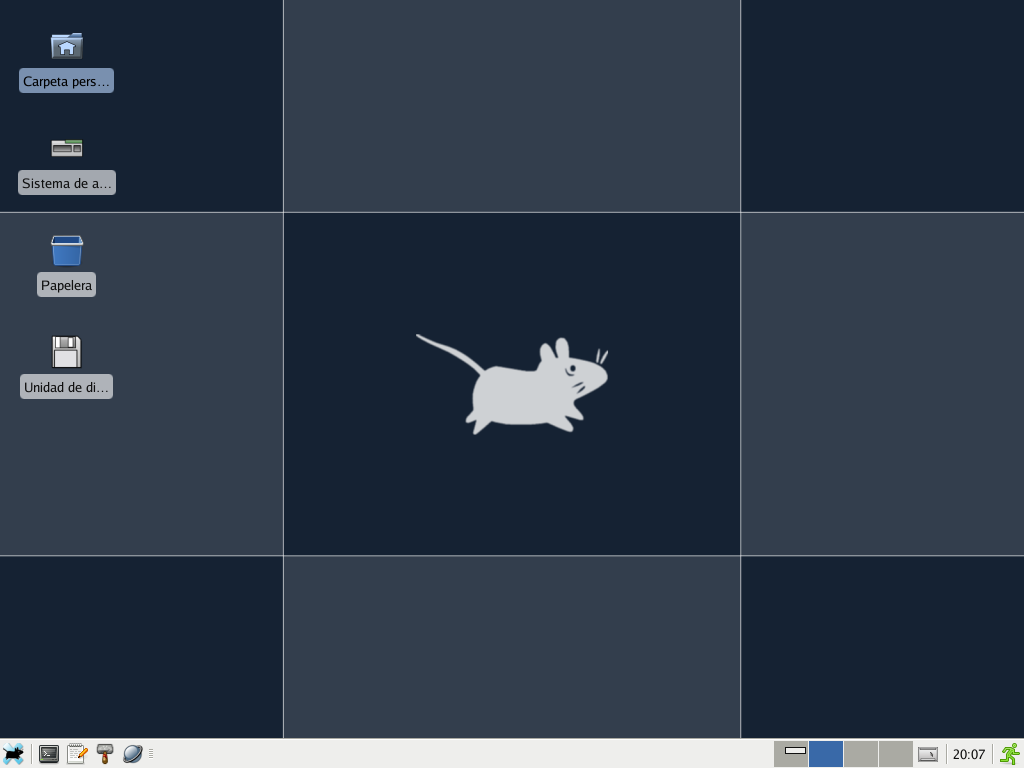 The Dragora Desktop.